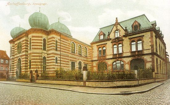 Synagogue of Aschaffenburg in Bavaria, built in 1893 and destroyed by the nazis in 1938 during the Cristal Nacht.